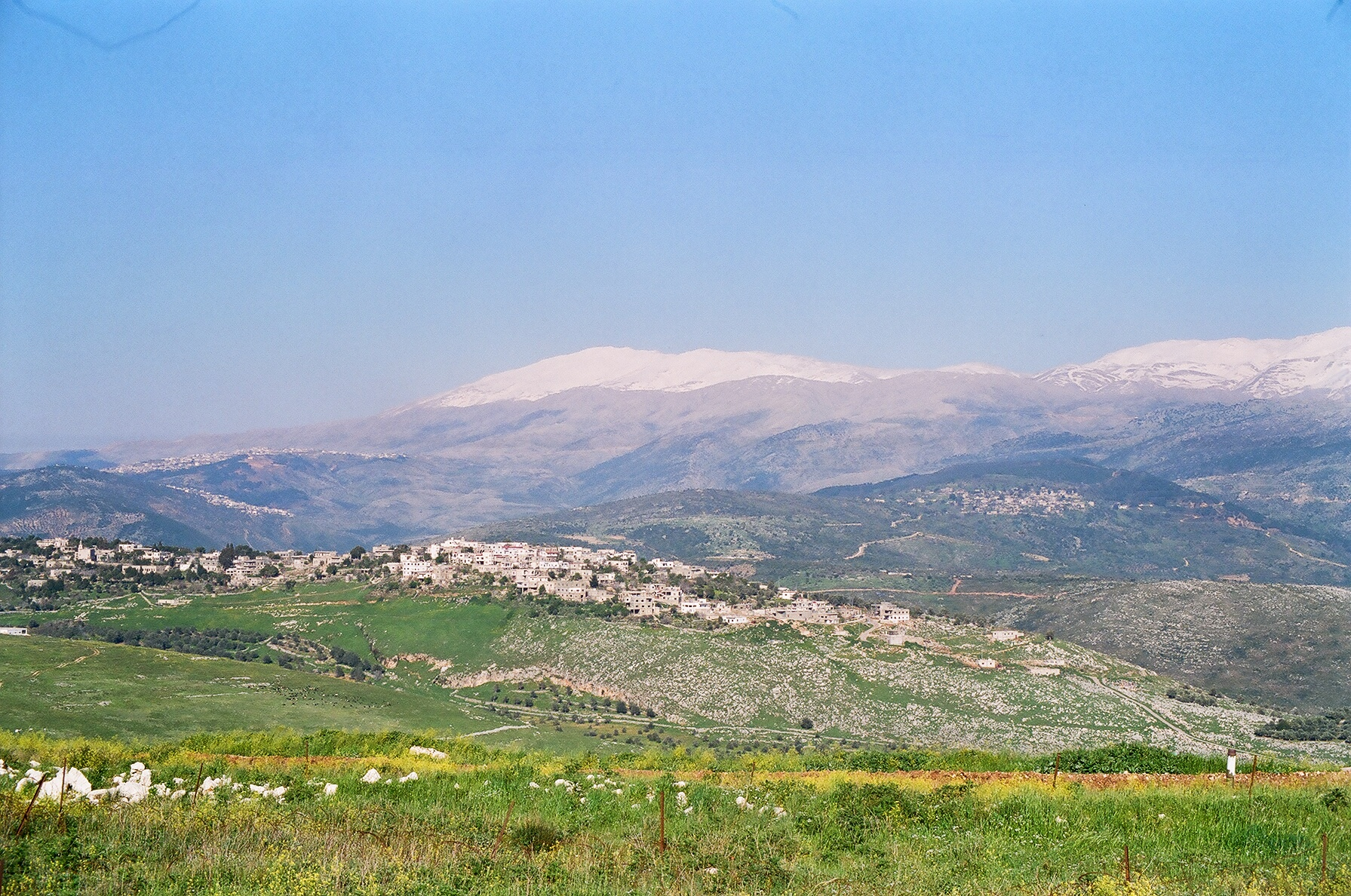 תמונה שצולמה (על ידי שחר) בשנת 1997 ממוצב צה"ל שרייפה ברצועת הביטחון בלבנון הכפר ברקע הוא "אבל א-סאקי" ההר המושלג הוא החרמון הסורי (החלק הצפוני מערבי שלו)